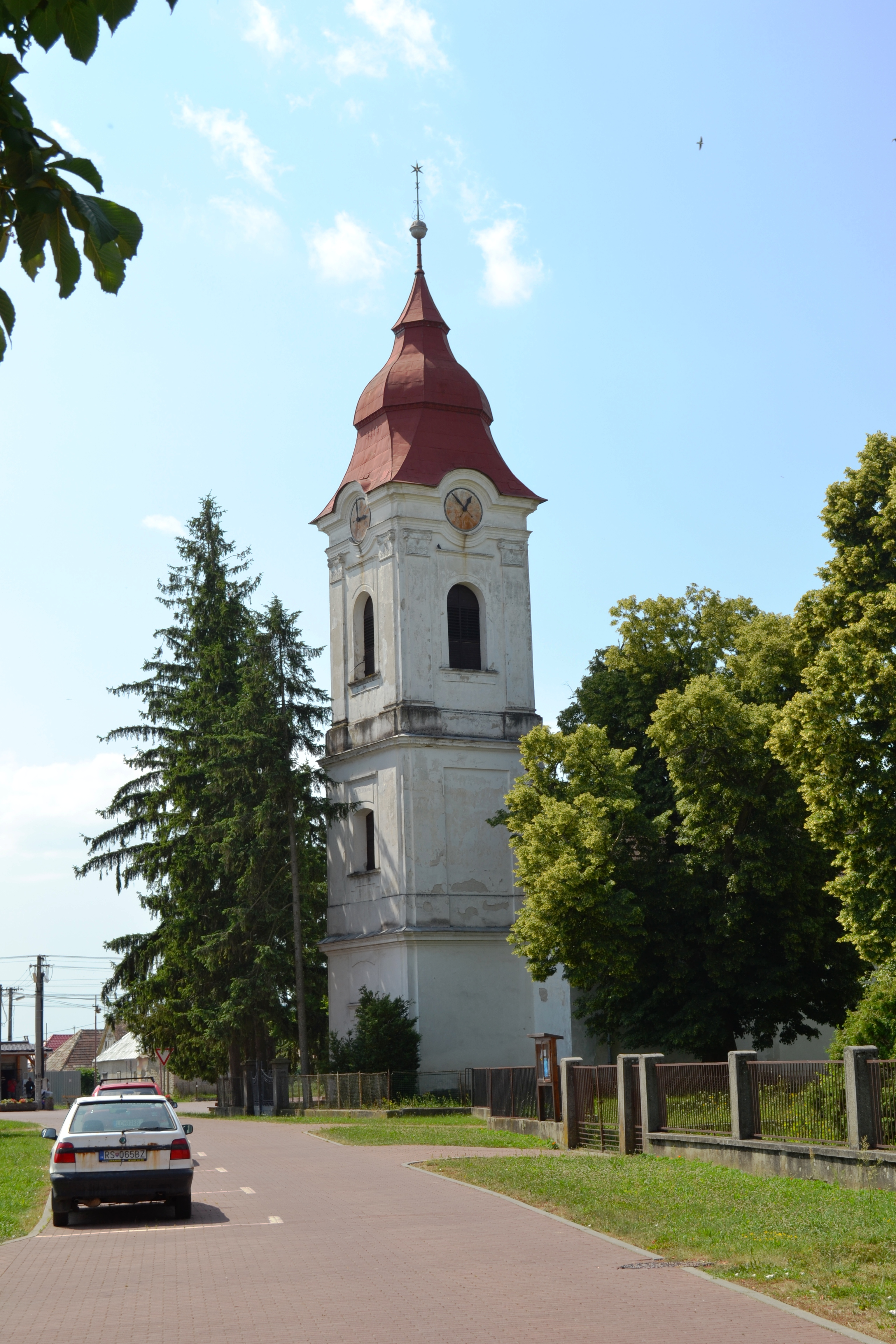 The Reformed Church in Rimavské JanovceSlovenčina: Kostol Reformovanej cirkvi v Rimavských Janovciach